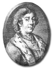 Duncan (Donnchad) II, d. 1094. King of Scots; eldest son of Malcolm Canmore